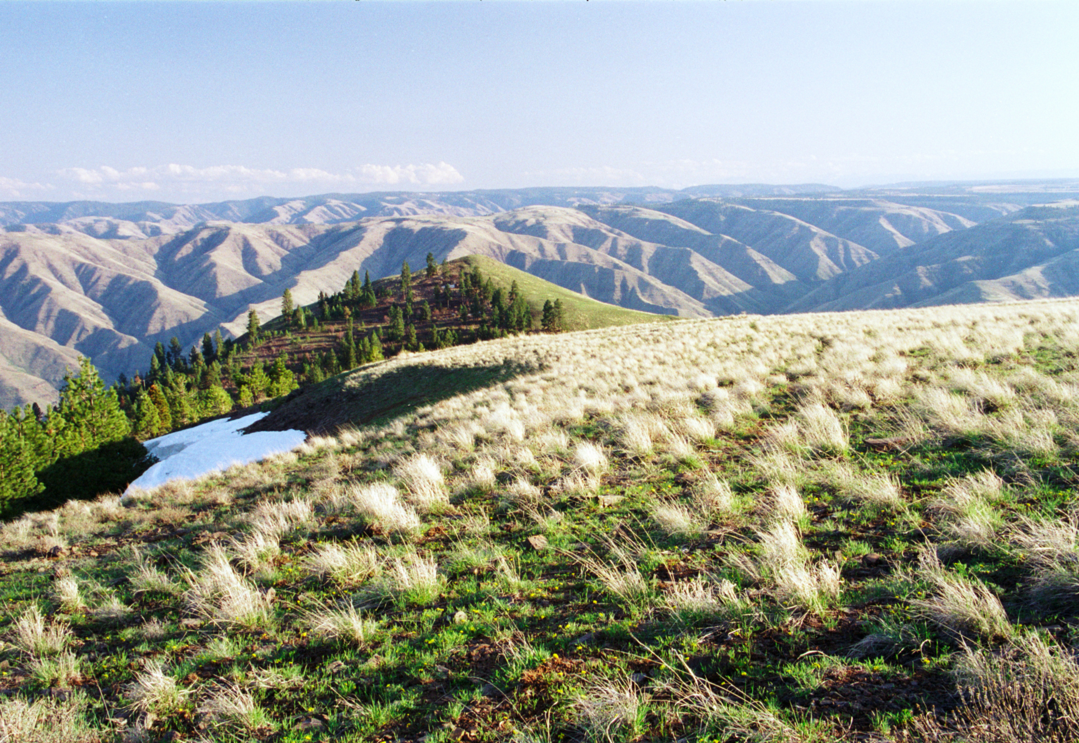 Summit of Puffer Butte, Washington, USA